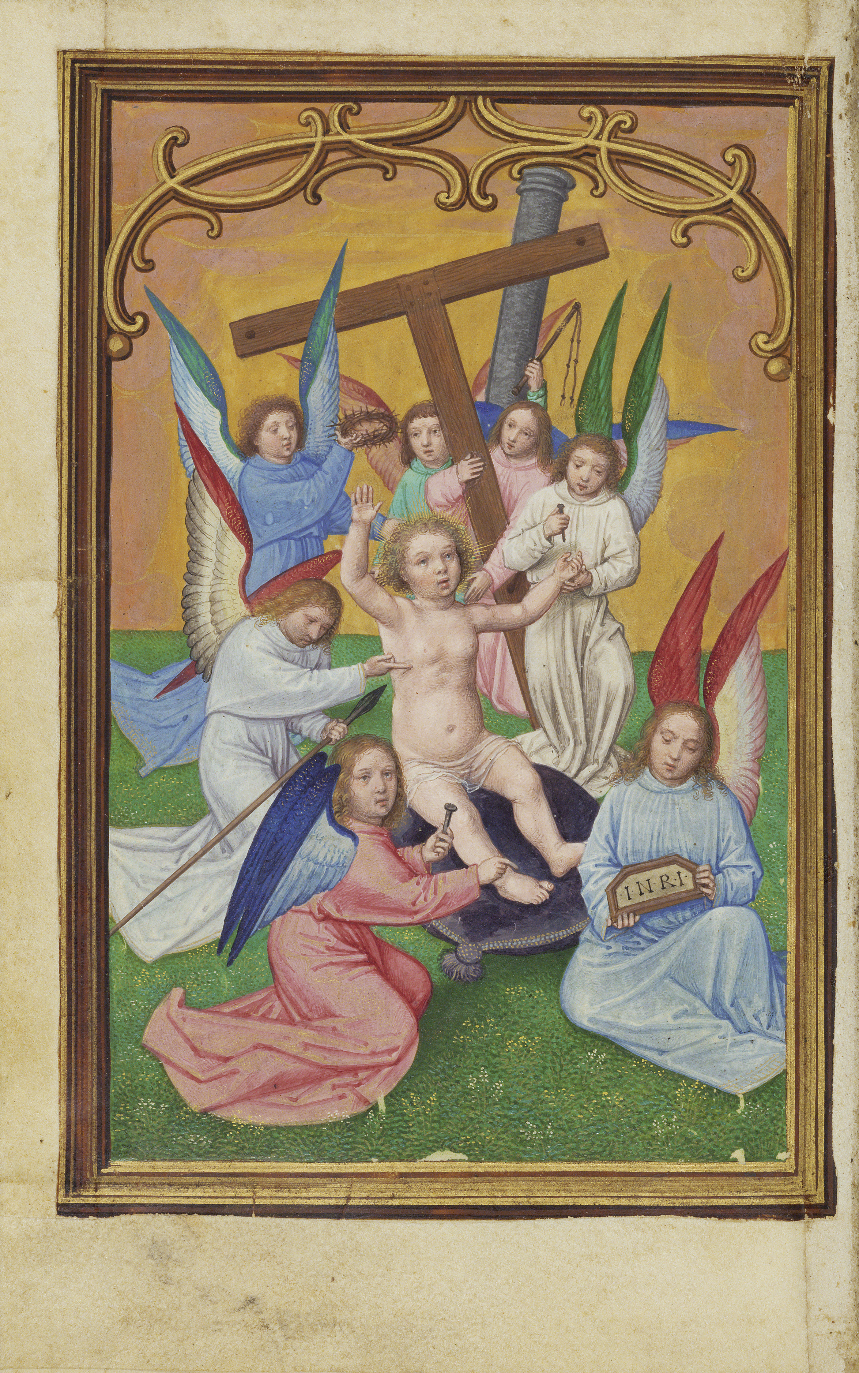 Folio 31v from the Prayer Book of Cardinal Albrecht of Brandenburg